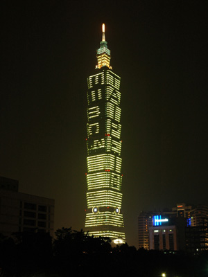 A display of the famous equation on Taipei 101 during the event of the World Year of Physics 2005.